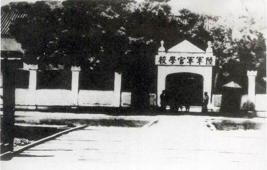 entrance gate of the Whampoa Military Academy